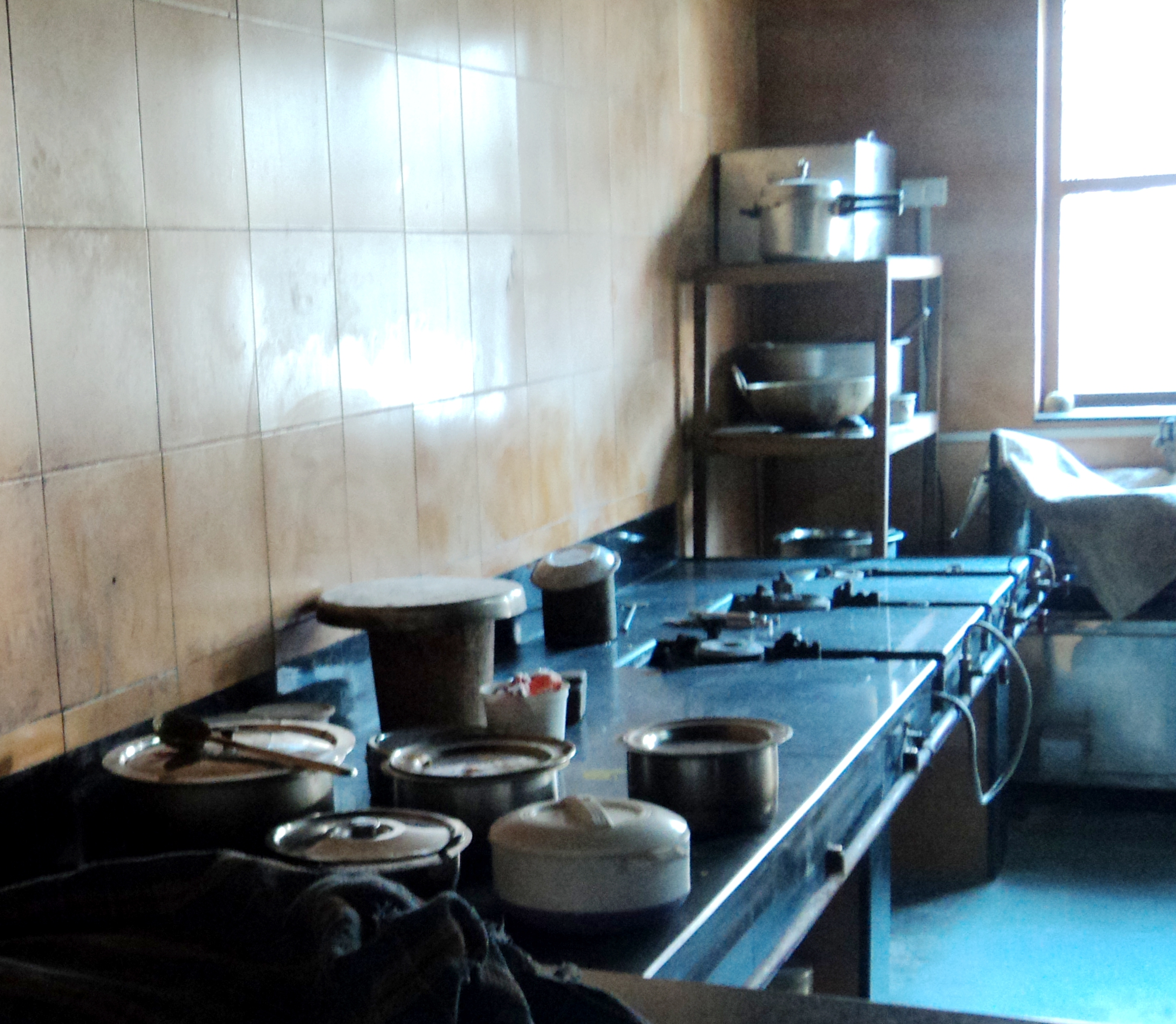 the stoves which are used to cook by the LPG, Tamil Nadu, India